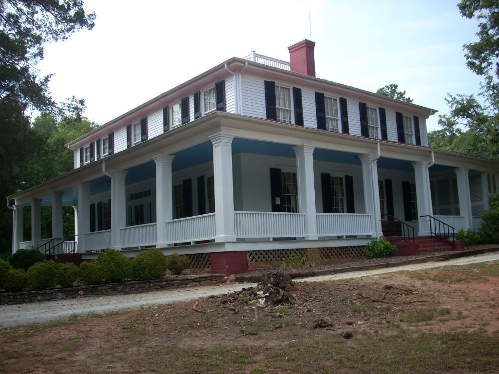 Ashtabula, off S.C. Hwy. 88, Pendleton vicinity, Anderson County , South Carolina).